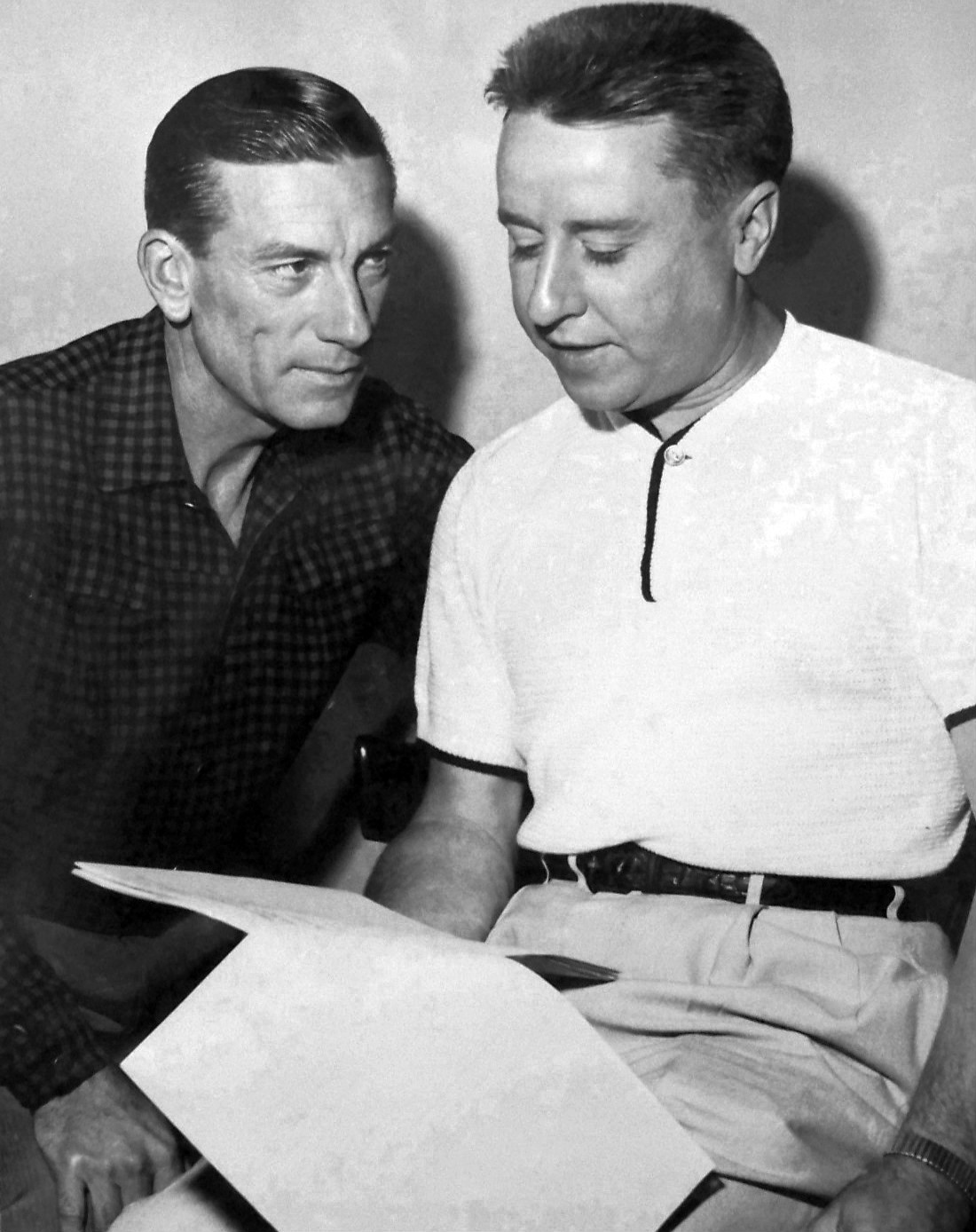 Publicity photo of Hoagy Carmichael and George Gobel to promote the fact that both were scheduled to be guest hosts of the NBC television program Saturday Night Revue.